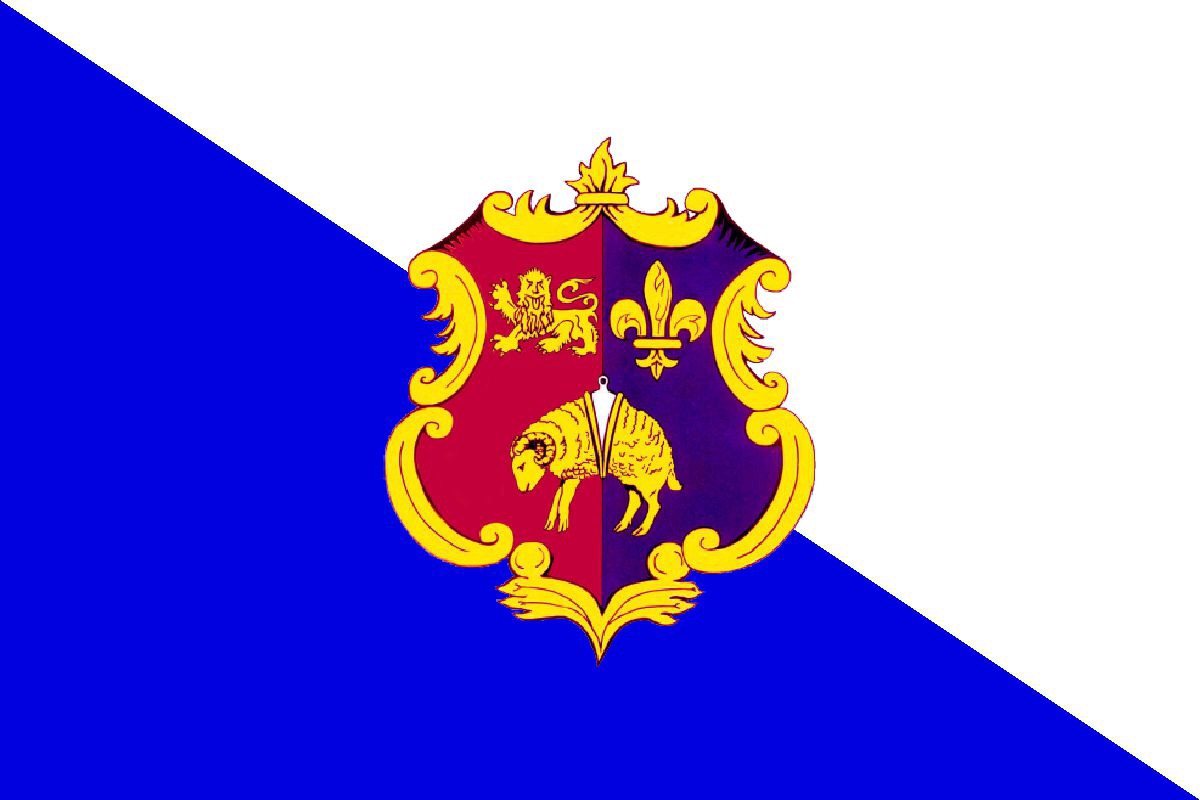 Tavistock Town Flag